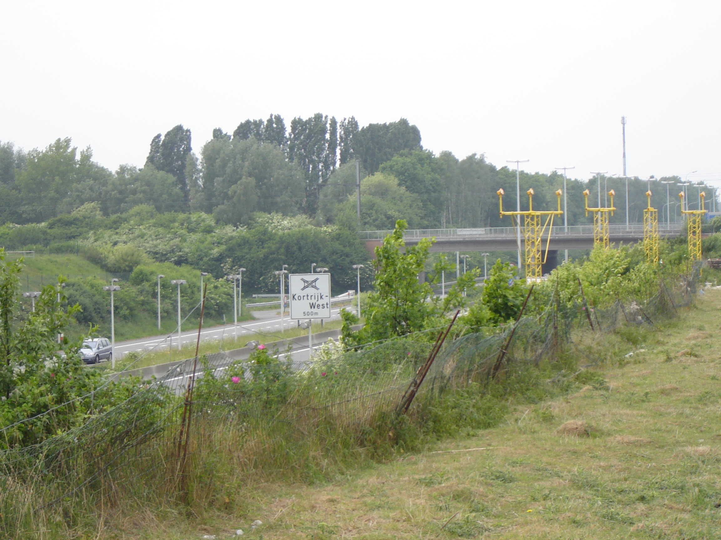 Ringway of Kortrijk R8, in Bissegem, between exit Bissegem and intersection Kortrijk-West (A19). Road as at the end of the landing strip of the airport of Kortrijk-Wevelgem, hence the low lamp posts for the road, and light signals for the landing strip. Bissegem, Kortrijk, West Flanders, Belgium